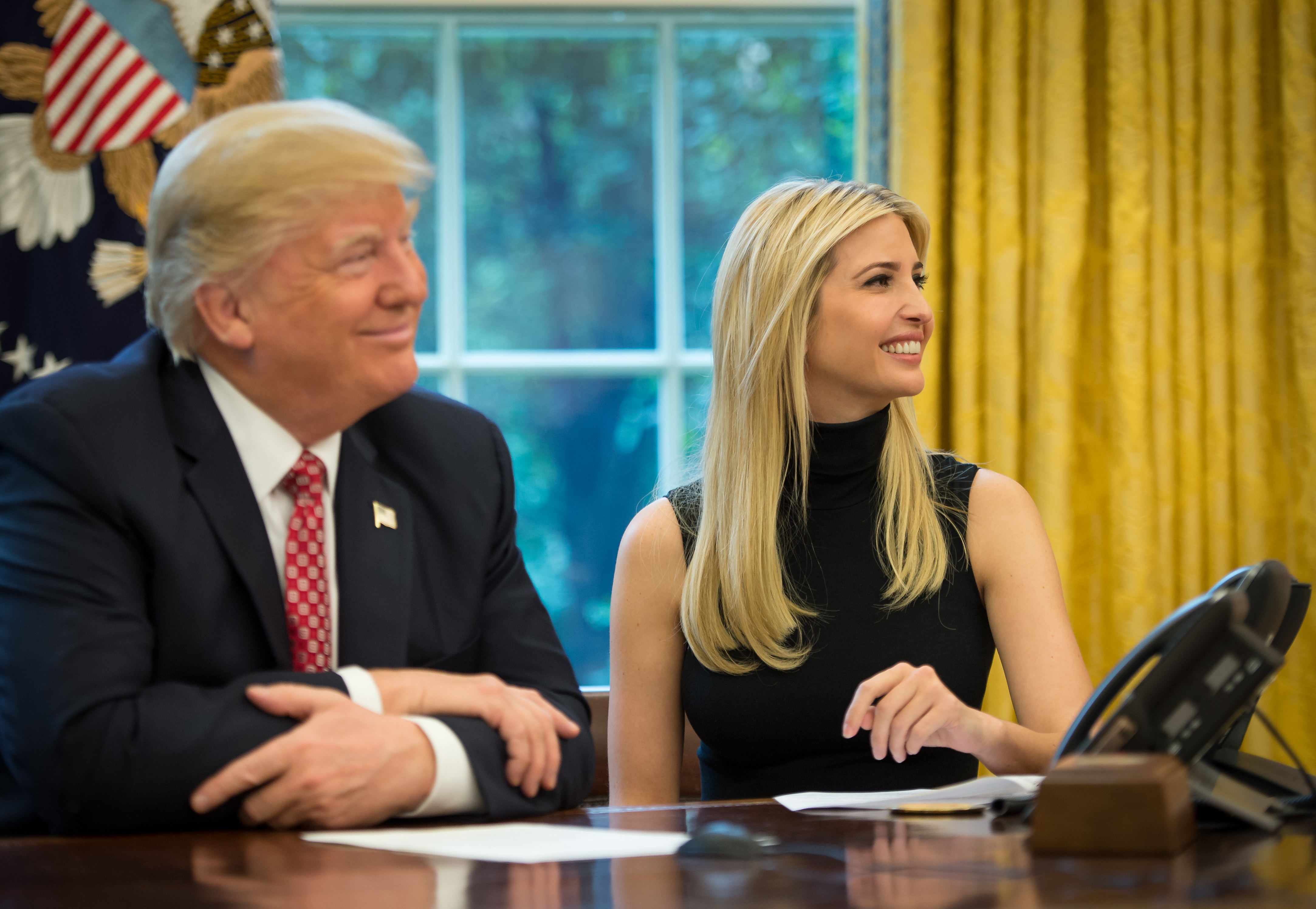 President Donald Trump, joined by First Daughter Ivanka Trump talks with NASA astronauts Peggy Whitson and Jack Fischer onboard the International Space Station Monday, April 24, 2017 from the Oval Office of the White House in Washington. The President congratulated Whitson for breaking the record for cumulative time spent in space by a U.S. astronaut. The President and First Daughter were also joined by NASA astronaut Kate Rubins and discussed with the three astronauts what it is like to live and work on the orbiting outpost as well as the importance of STEM.